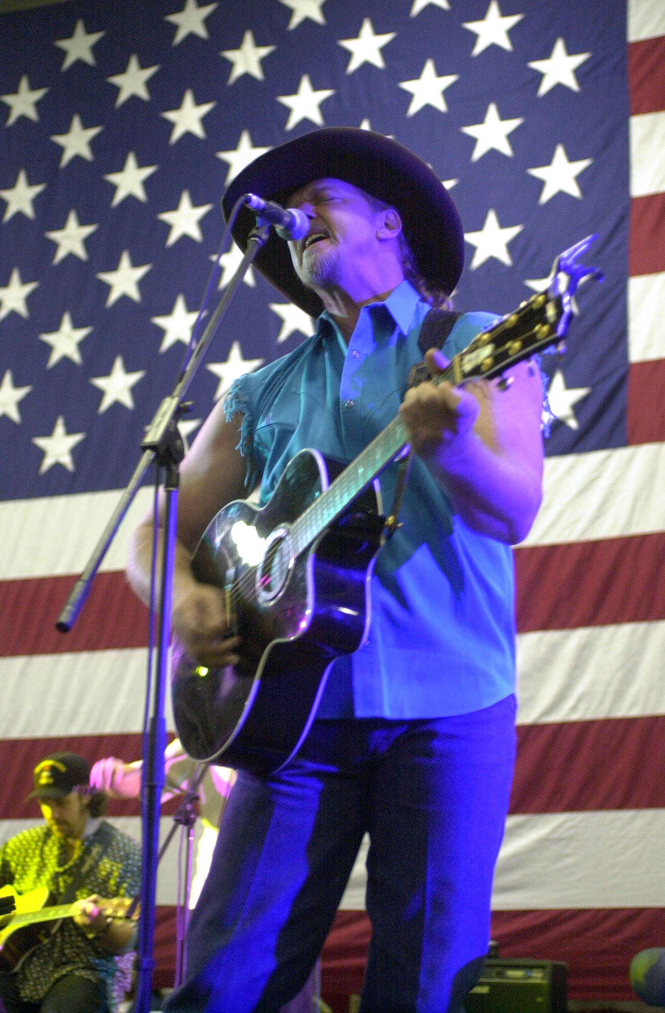 Country musician Trace Adkins entertains Sailors aboard the USS Abraham Lincoln (CVN 72) in 2002.